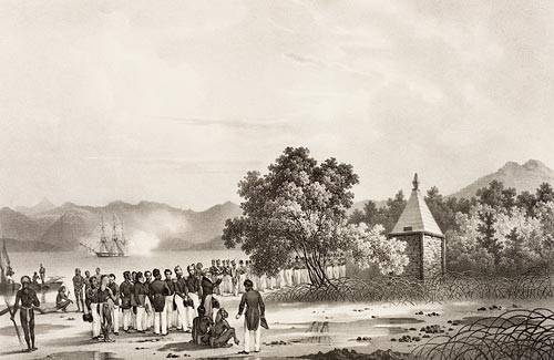 Dumont d'Urville after the erection of the Pérouse Monument on Vanikoro, Solomon Islands, Pacific Ocean